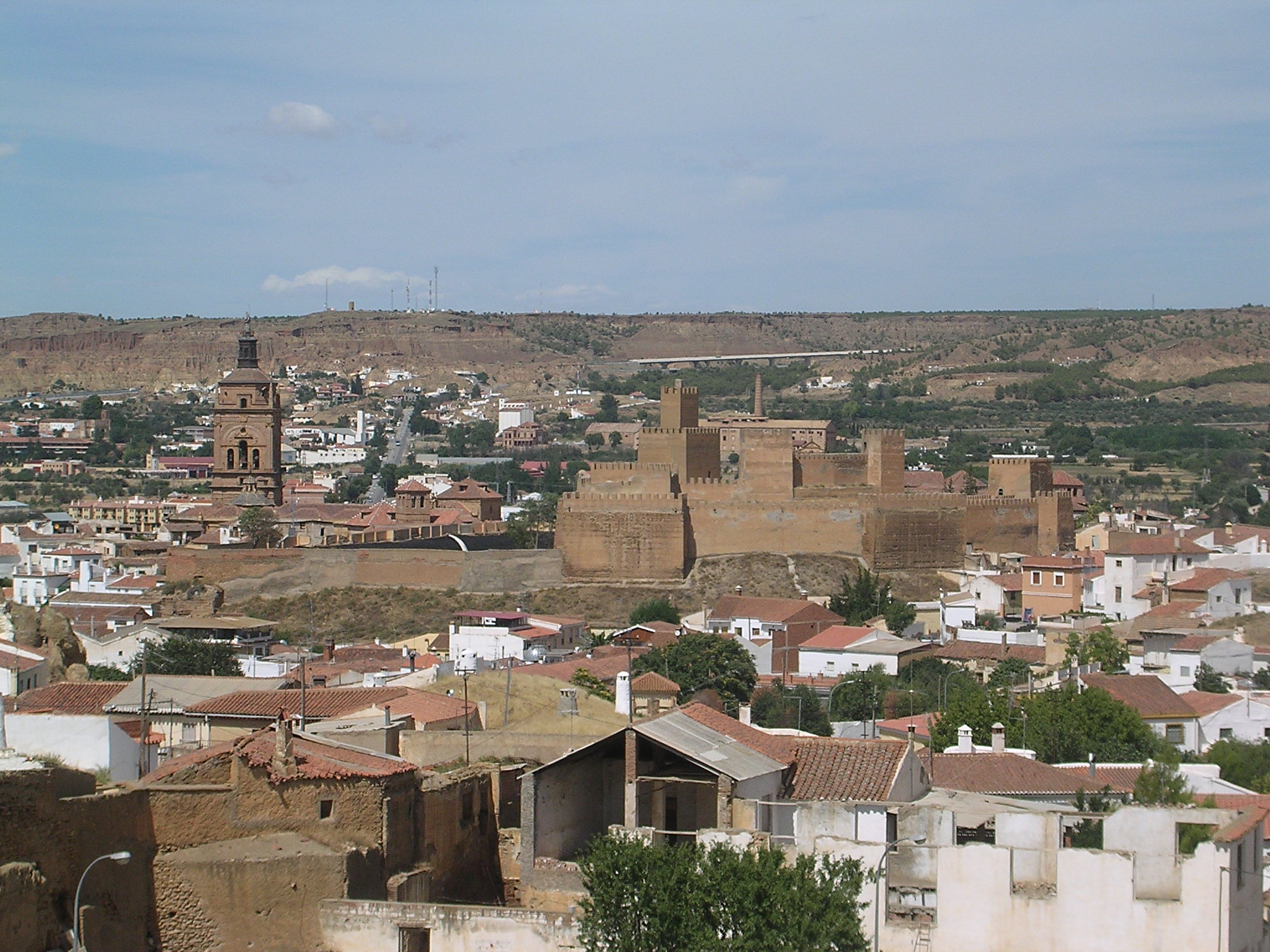 Guadix, Spain